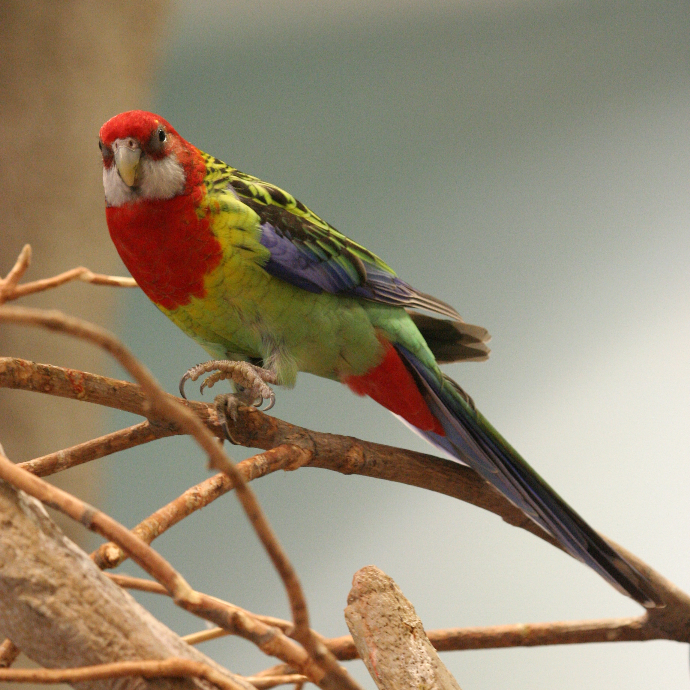 Eastern Rosella (Platycercus eximius) at Buffalo Zoo, USA.